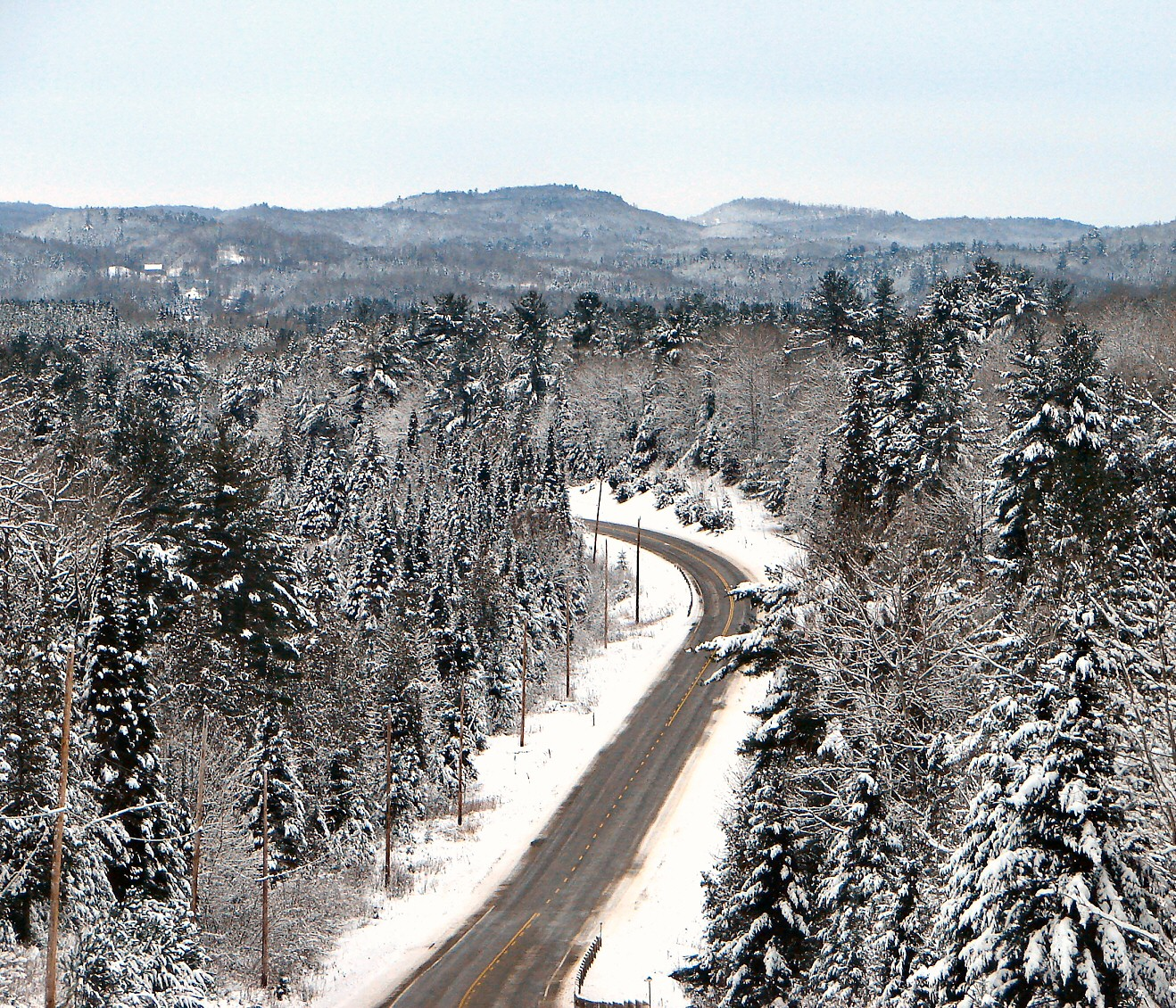 Highway 28 east of McArthur Mills, Ontario, Canada